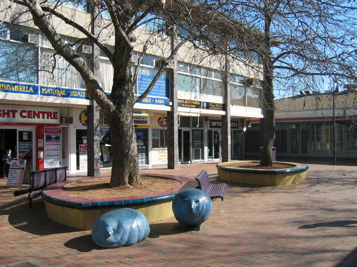 Category:Images of Canberra Dickson Centre, Australian Capital Territory. Photo taken 13 Aug 2005 bu User:Adz. A paved pedestrian area at the western end of Dickson Centre is the location of small offices as well as retail shops, take away food stores, cafes, and a supermarket.